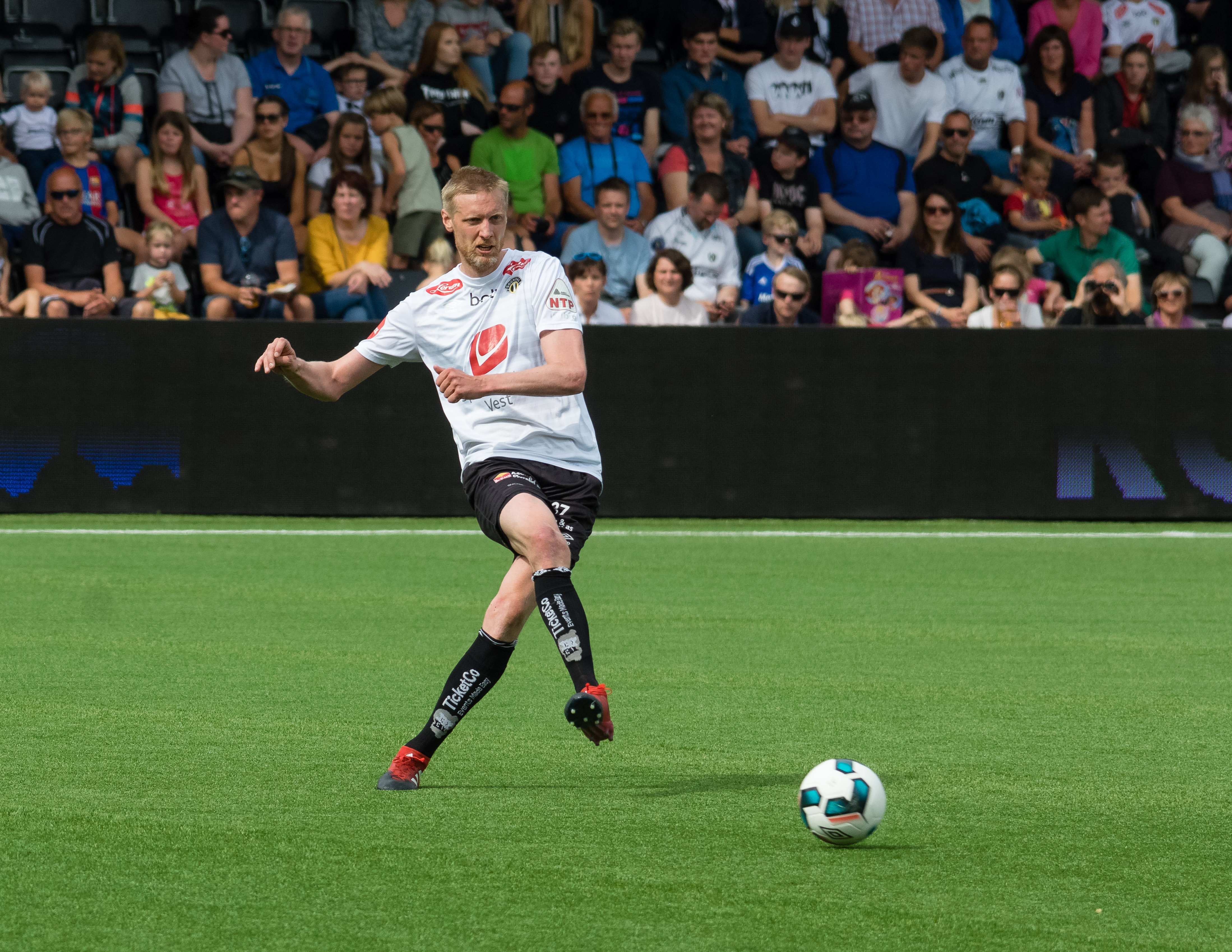 Espen Næss Lund, Sogndal-Rosenborg 07-15-2017.